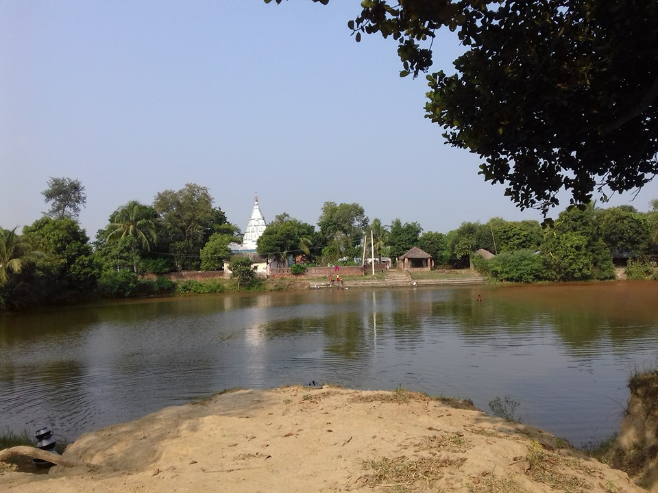 the famous panchdevta temple of mauwaha